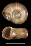 photo of apical and apertural view of the shell of Planorbella duryi, synonym: Helisoma duryi.